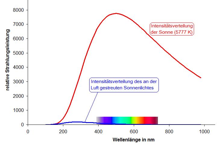 Power distribution of scattered sunlight (This sketch is illustrative and does not allow reading of values ​​such as intensity, radiation components, or wavelengths)